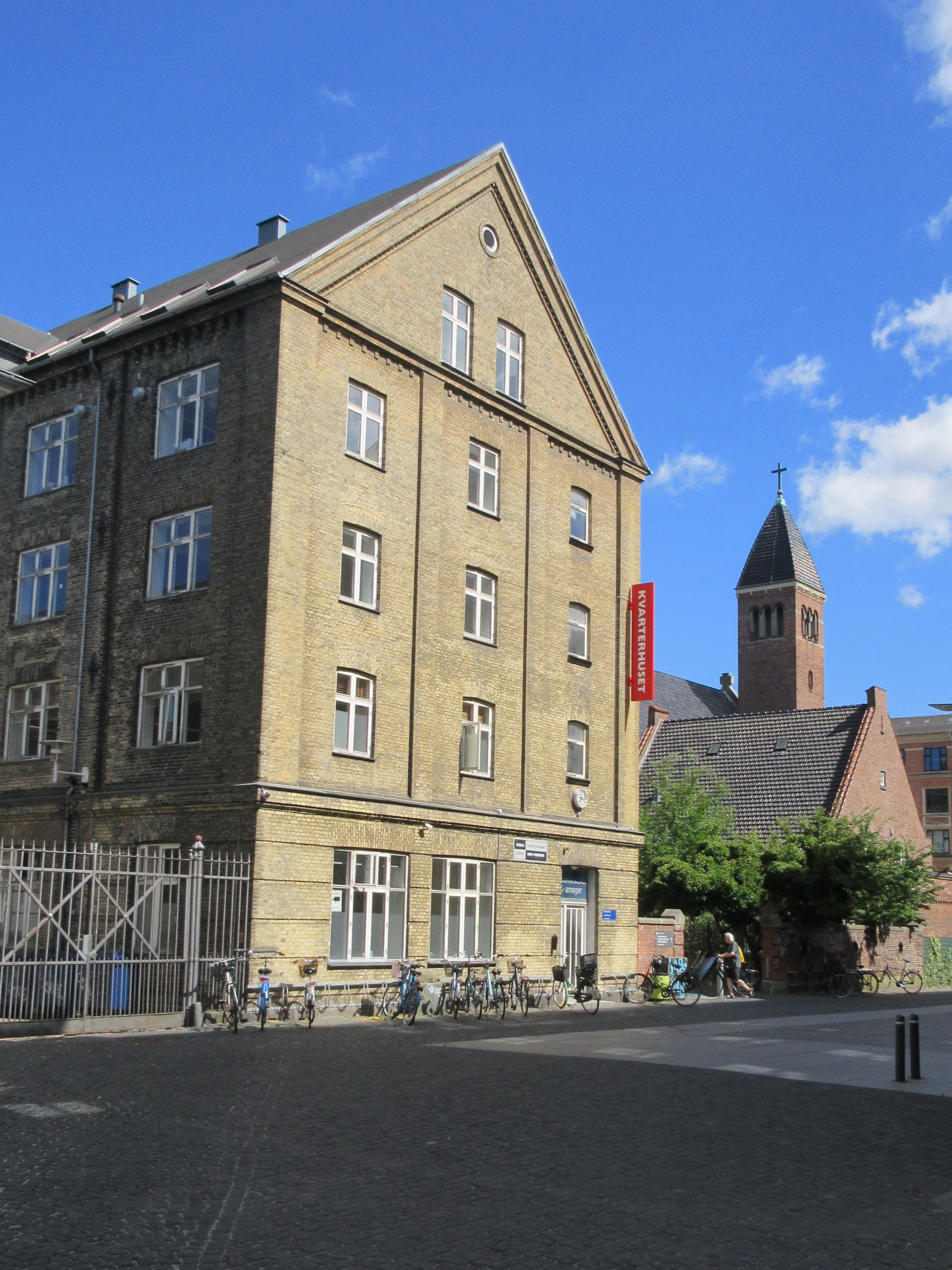 Jemtelandsgade in Copenhagen, Denmark